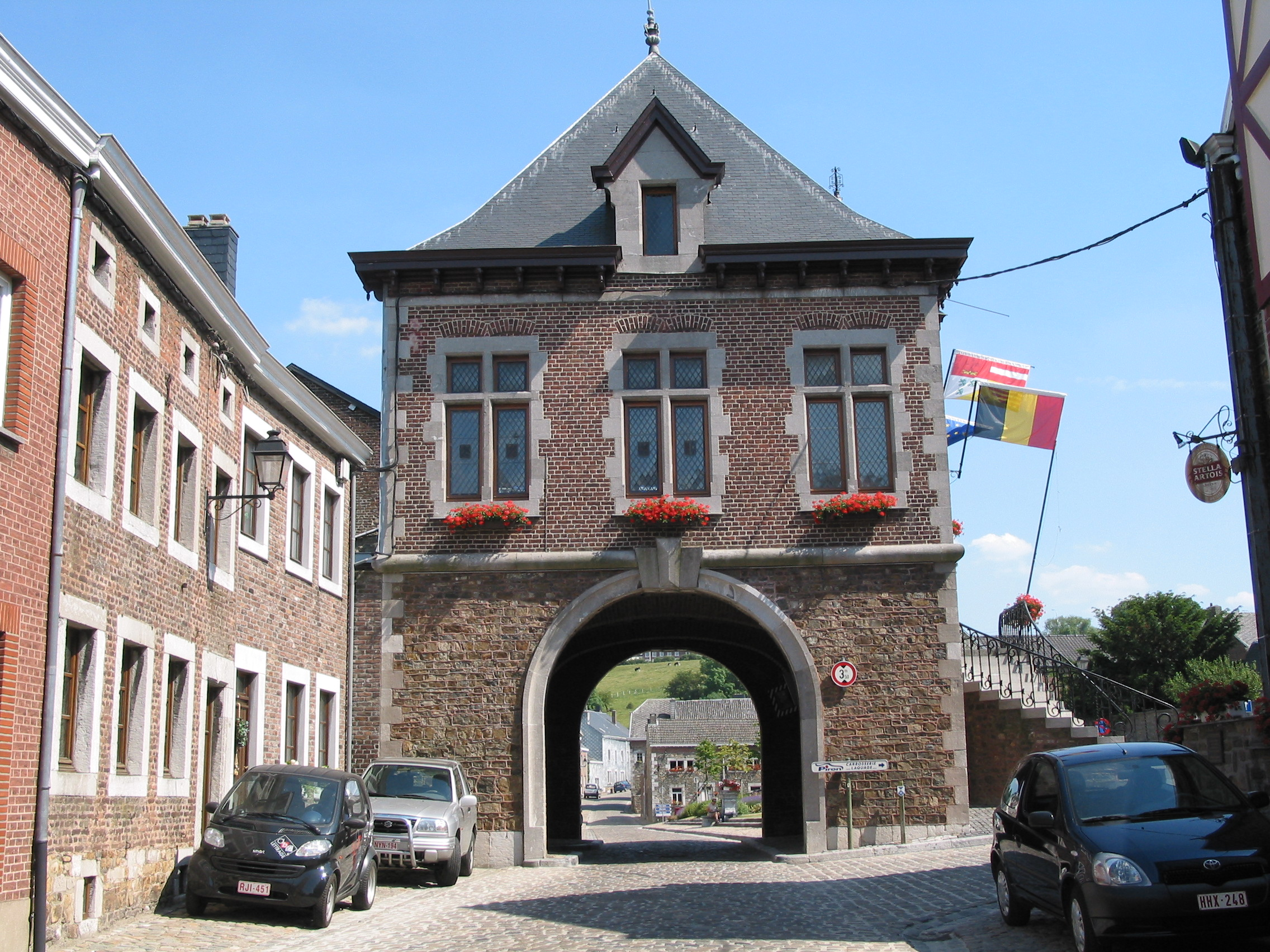 Clermont (Thimister) (Belgium), the town hall (1888) and his porch overhanging the street.